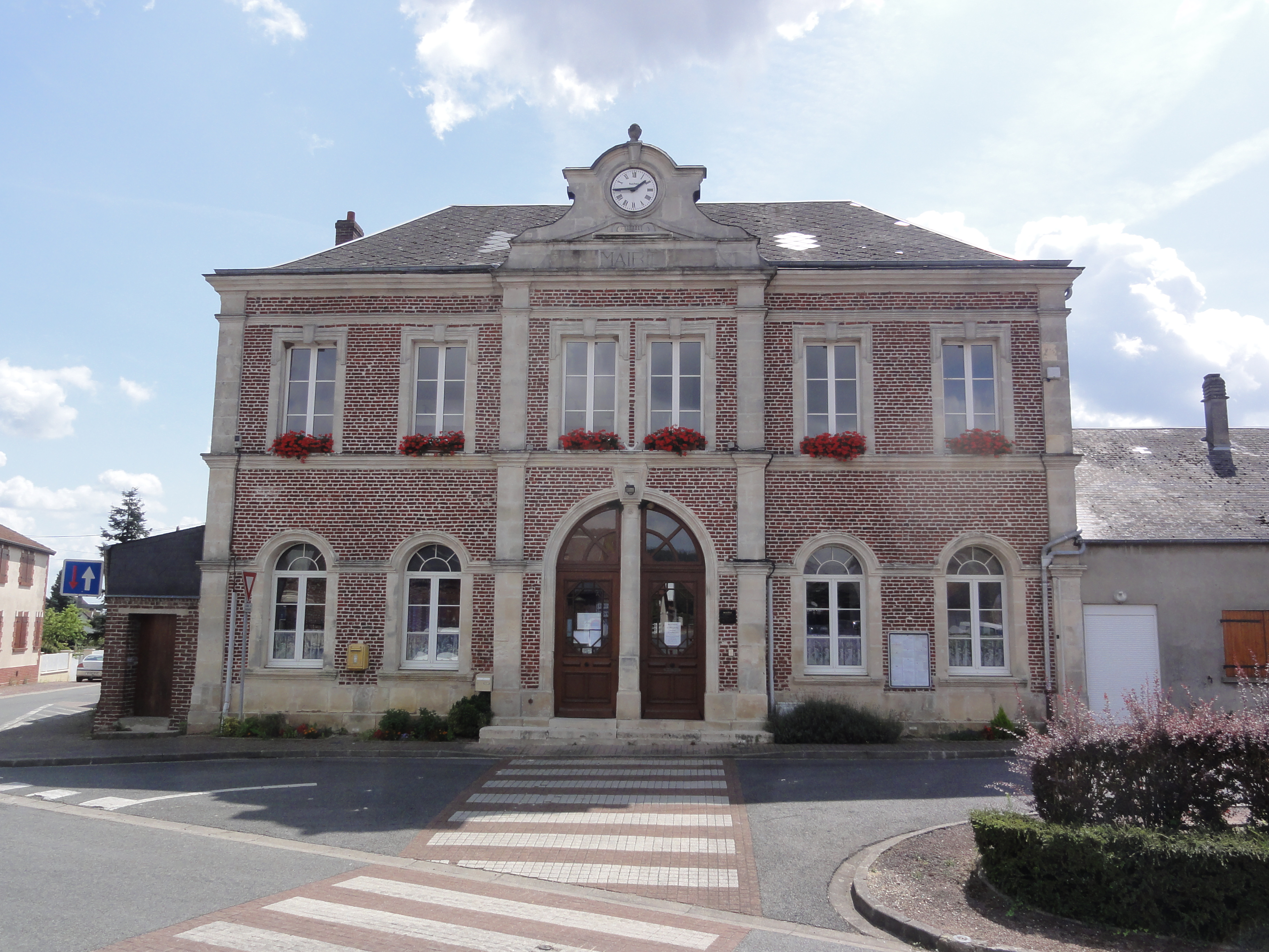 Caillouël-Crépigny (Aisne) mairie